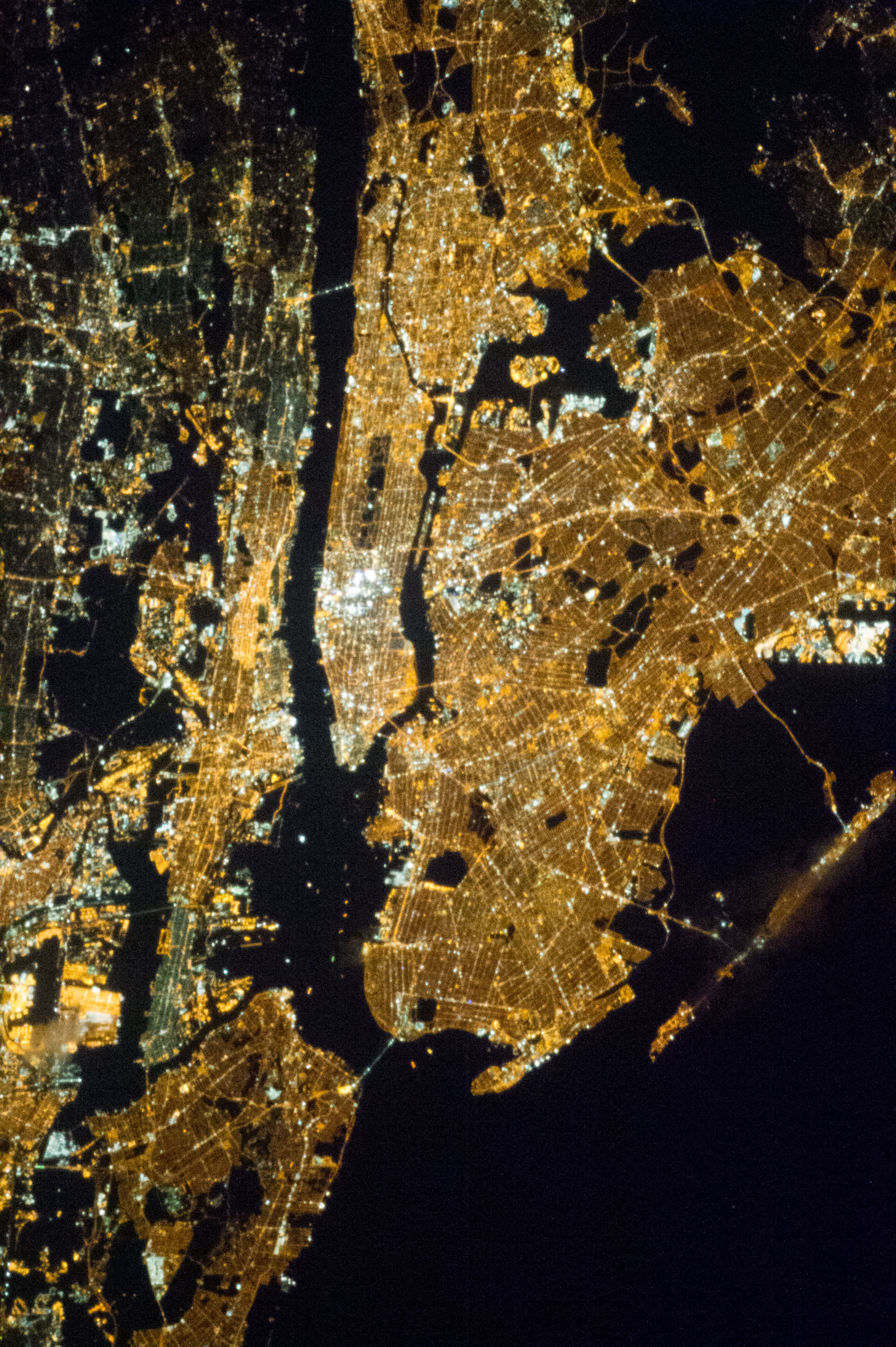 One of the Expedition 35 crew members aboard the Earth-orbiting International Space Station exposed this 400 millimeter night image of the greater New York City metropolitan area on March 23. For orientation purposes, note that Manhattan runs horizontal through the frame from left to the midpoint. Central Park is just a little to the left of frame center.